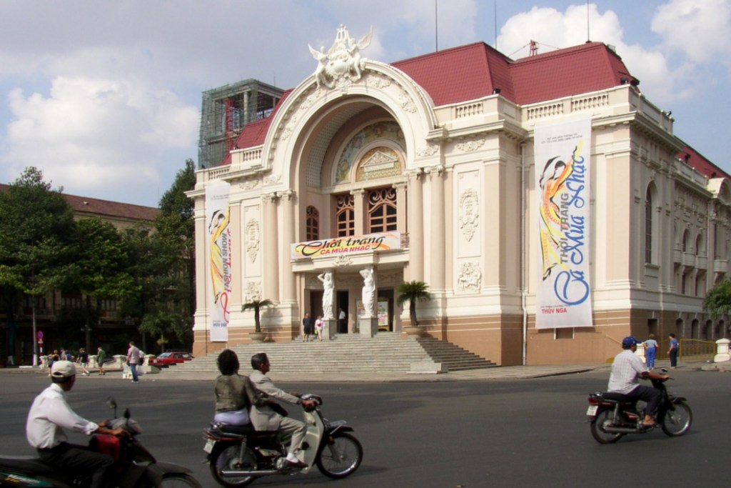 Thành phố Hồ Chí Minh: Nhà hát lớn Thành phố; Ho Chi Minh City, Vietnam: Municipal Theatre (at Dong Khoi Blvd., the former Rue Catinat; designed by the French architect Ferré, opened 1899)